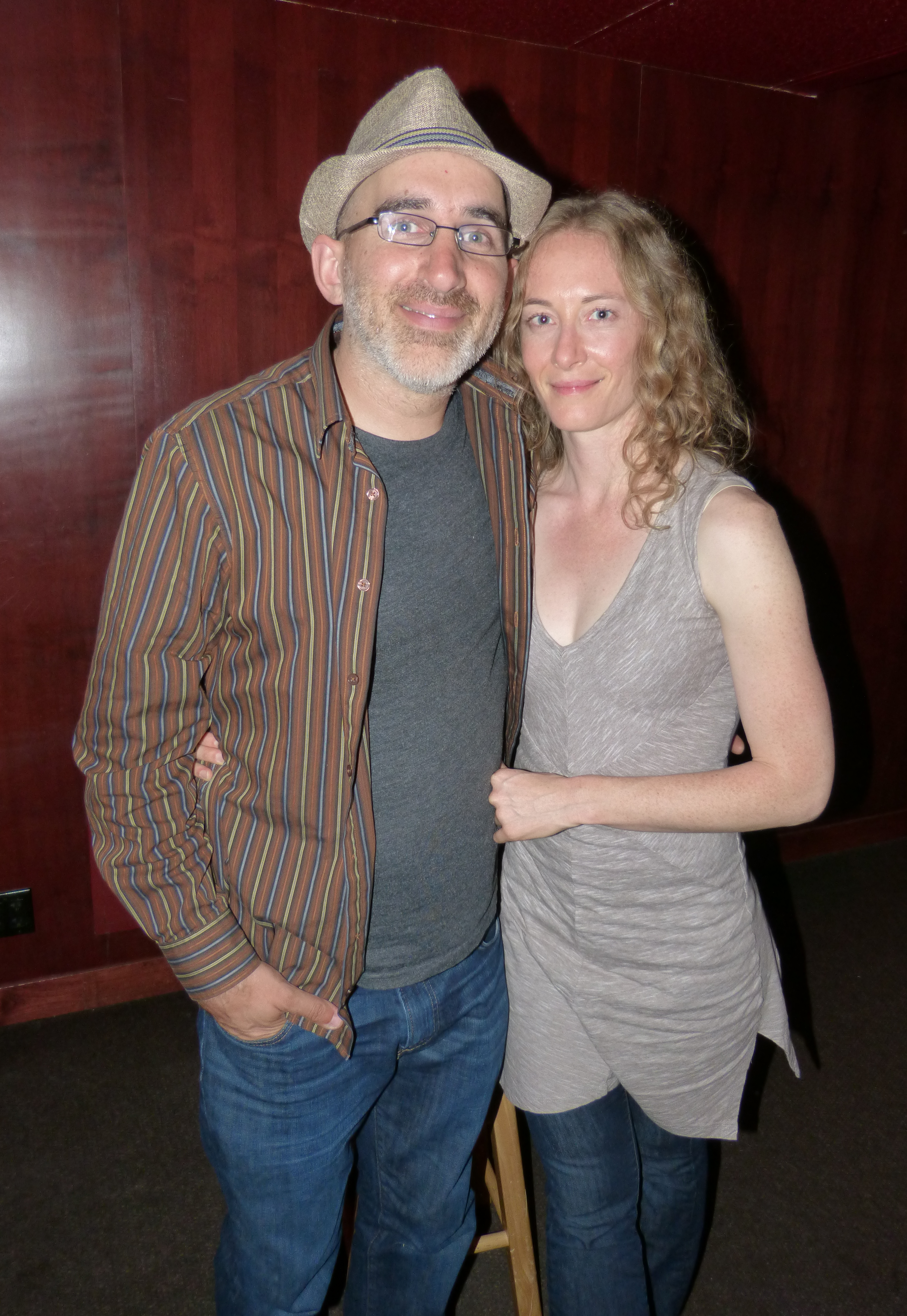 A photo of singer-songwriters Dan Frechette and Laurel Thomsen in 2015.